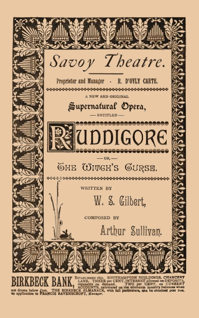 Scan of original 1887 programme for Richard D'Oyly Carte's production of Ruddigore. Public domain